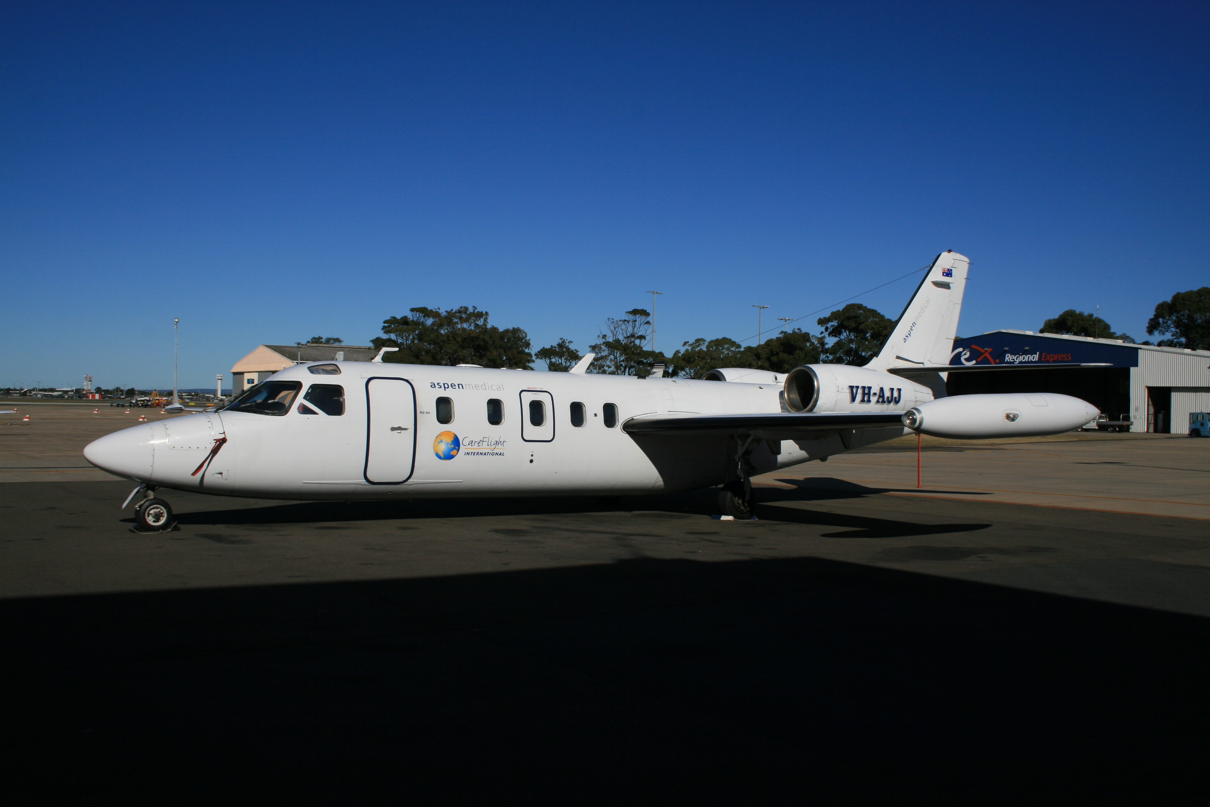 Pel-Air is a major operator of the IAI 1124 series of aircraft. They are used for corporate charter, freight, aeromedical and military support operations. VH-AJJ is used on aeromedical operations in conjunction with Careflight International and Aspen Medical and is the only Pel-Air Westwind not to be painted in company colours. Pel-Air Westwind VH-AJJ at Sydney Airport August 4 2007. Digital photo taken by YSSYguy for use in article about Pel-Air.